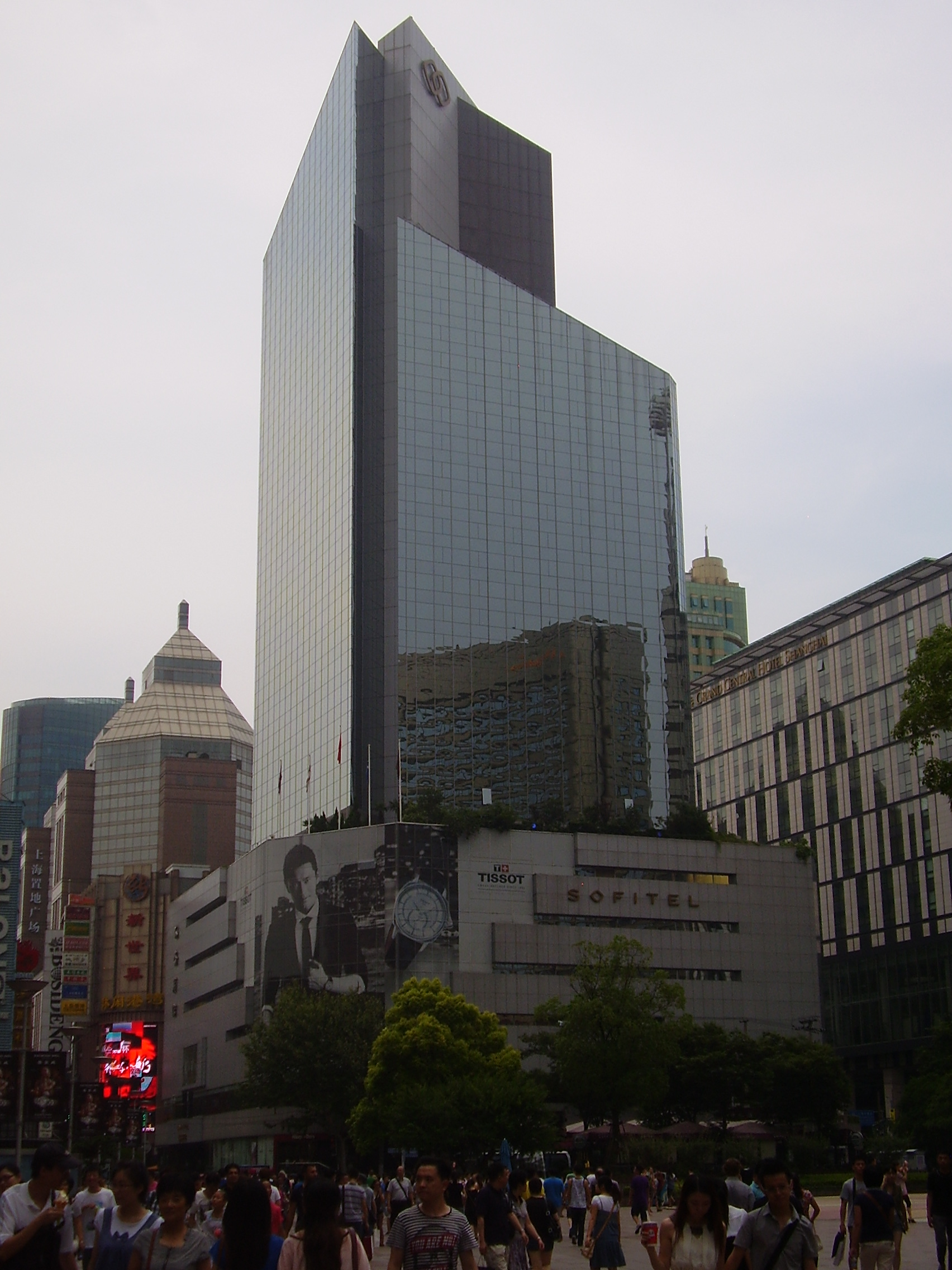 Sofitel Shanghai Hyland